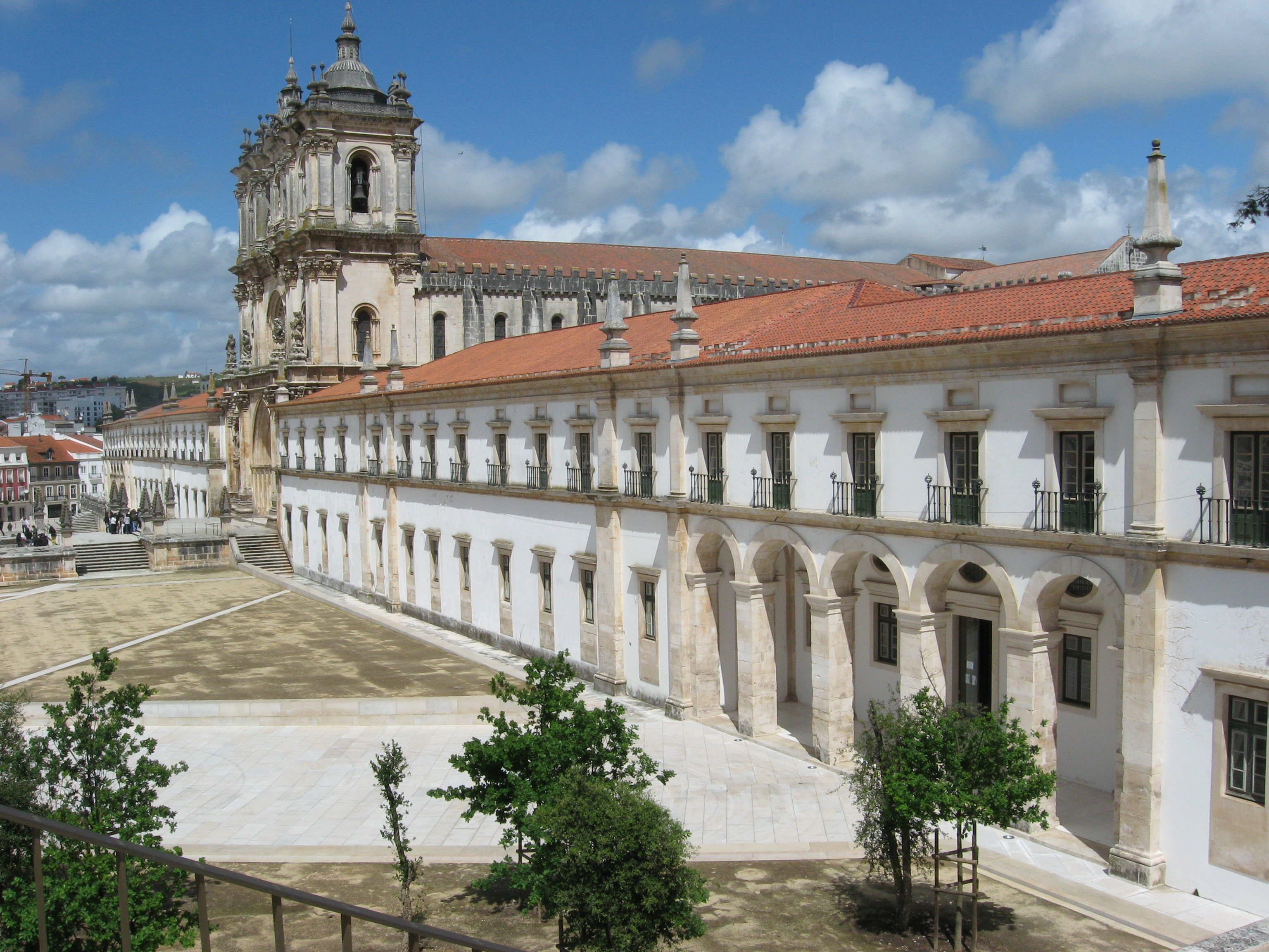 Monastery of Alcobaça, main front, with new place